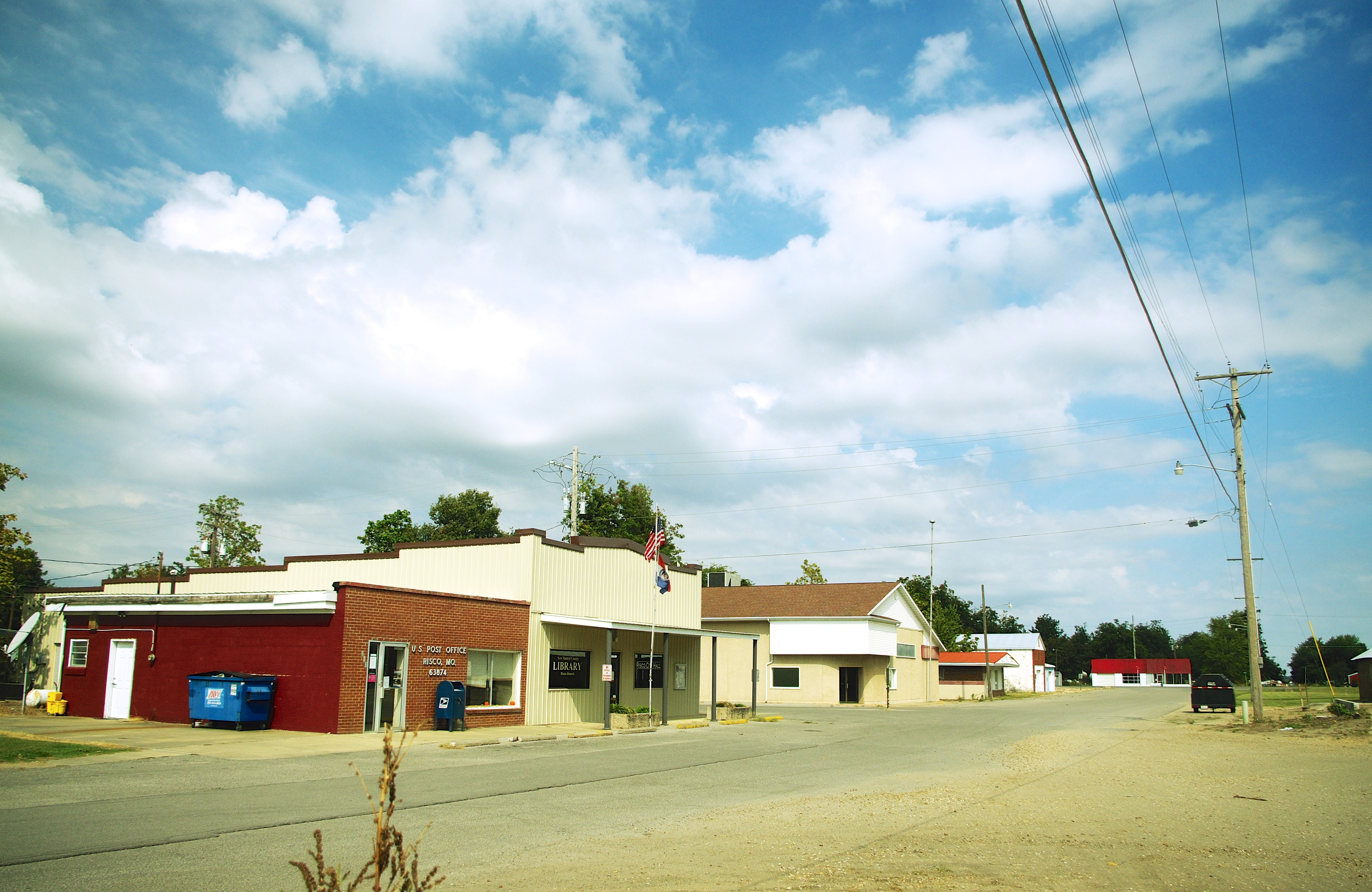 Buildings along Front Street in Risco, Missouri, United States.